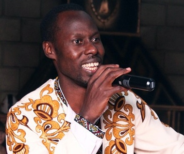 Ukraine popular Foreigners